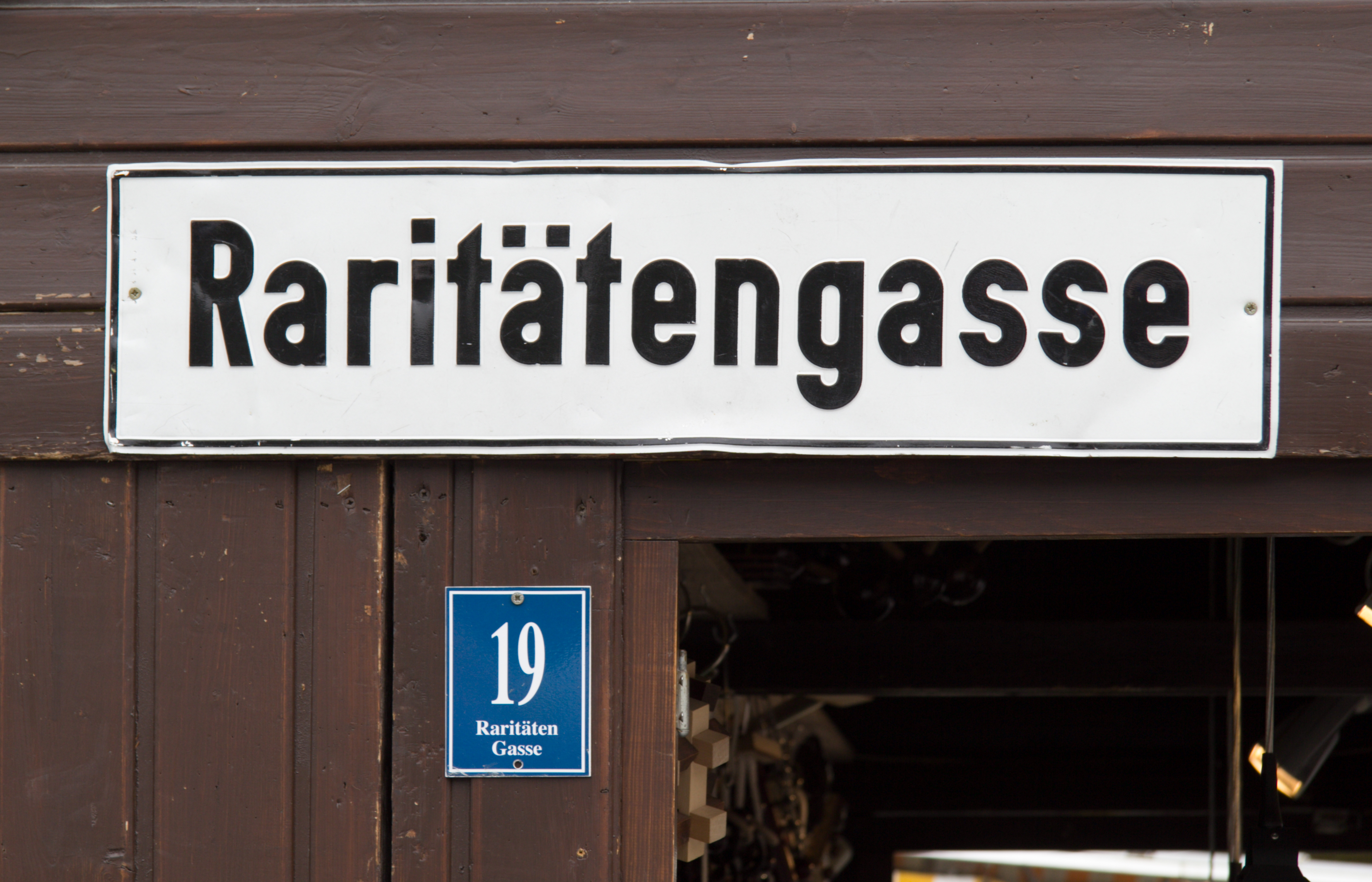 The Auer Dult in Munich in May 2013. Sign "Raritätengasse" at the antique market.